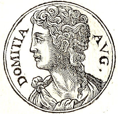 Albia Dominica was a Roman Augusta, wife to Emperor Valens. Valens, who ruled from 364-378, was emperor of the East and co-emperor with his brother Valentinian I.